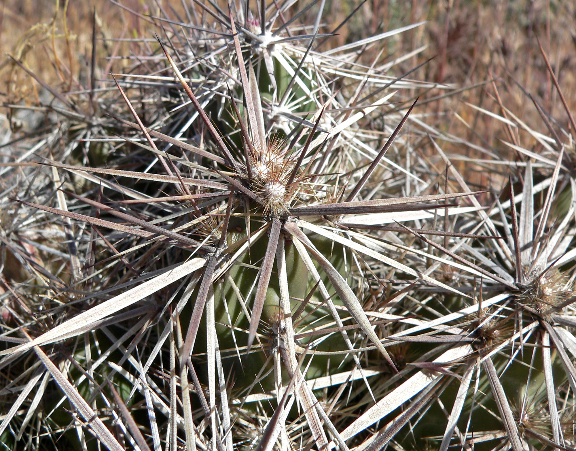 Photo of Grusonia parishii (mat cholla, dead cactus) in Red Rock Canyon, Nevada